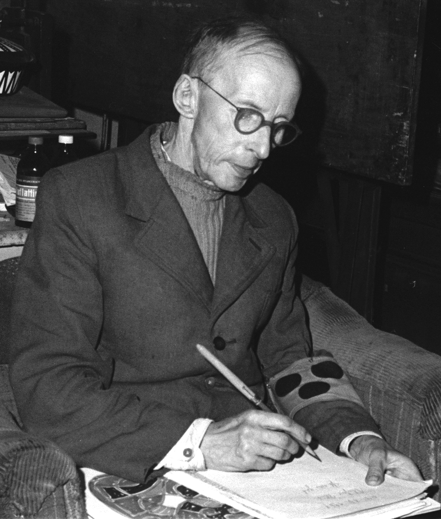 photo of Harry Scheibe, taken by Utz Brocksieper